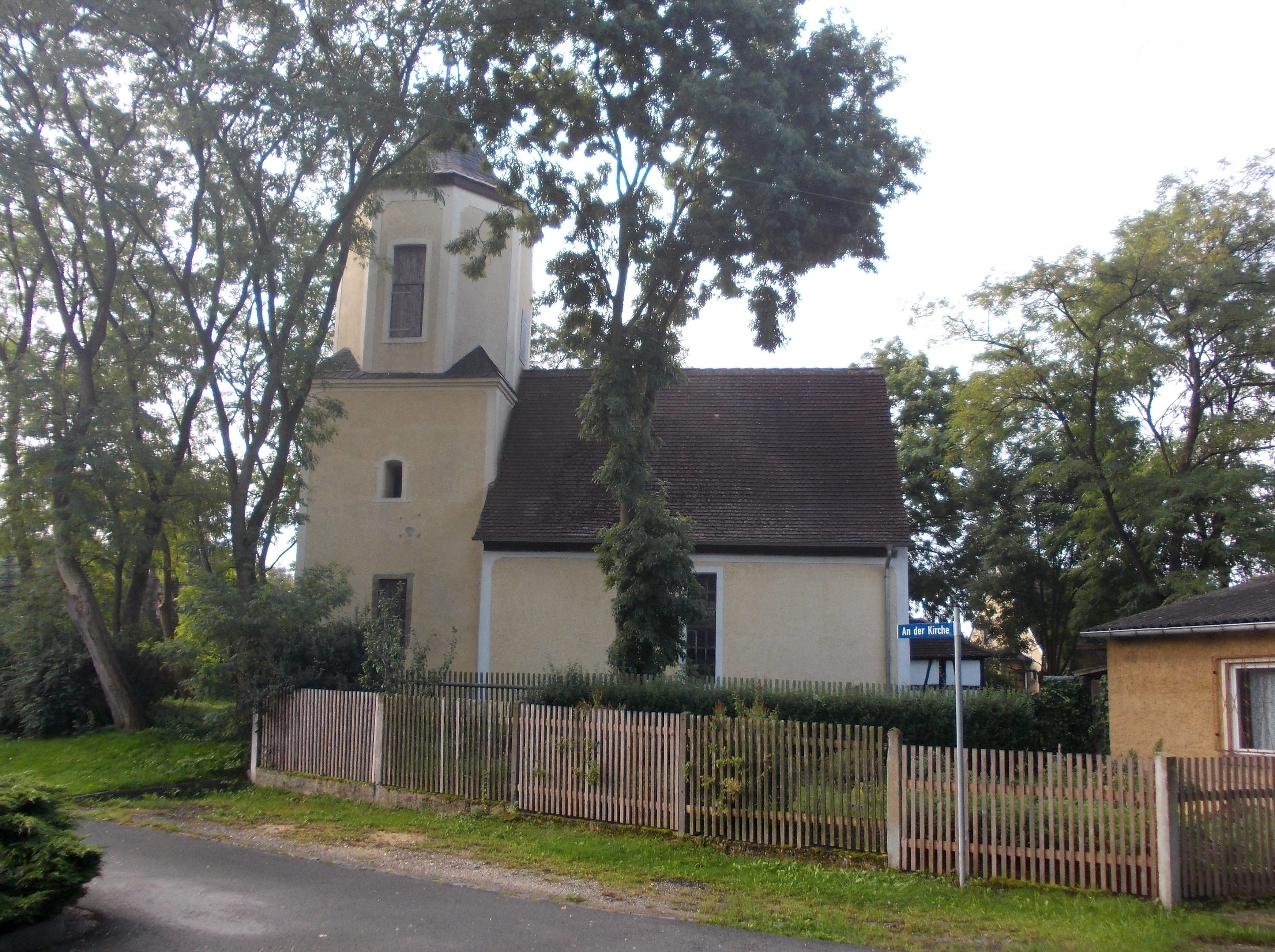 Kleinhelmsdorf church (Osterfeld, district: Burgenlandkreis, Saxony-Anhalt)